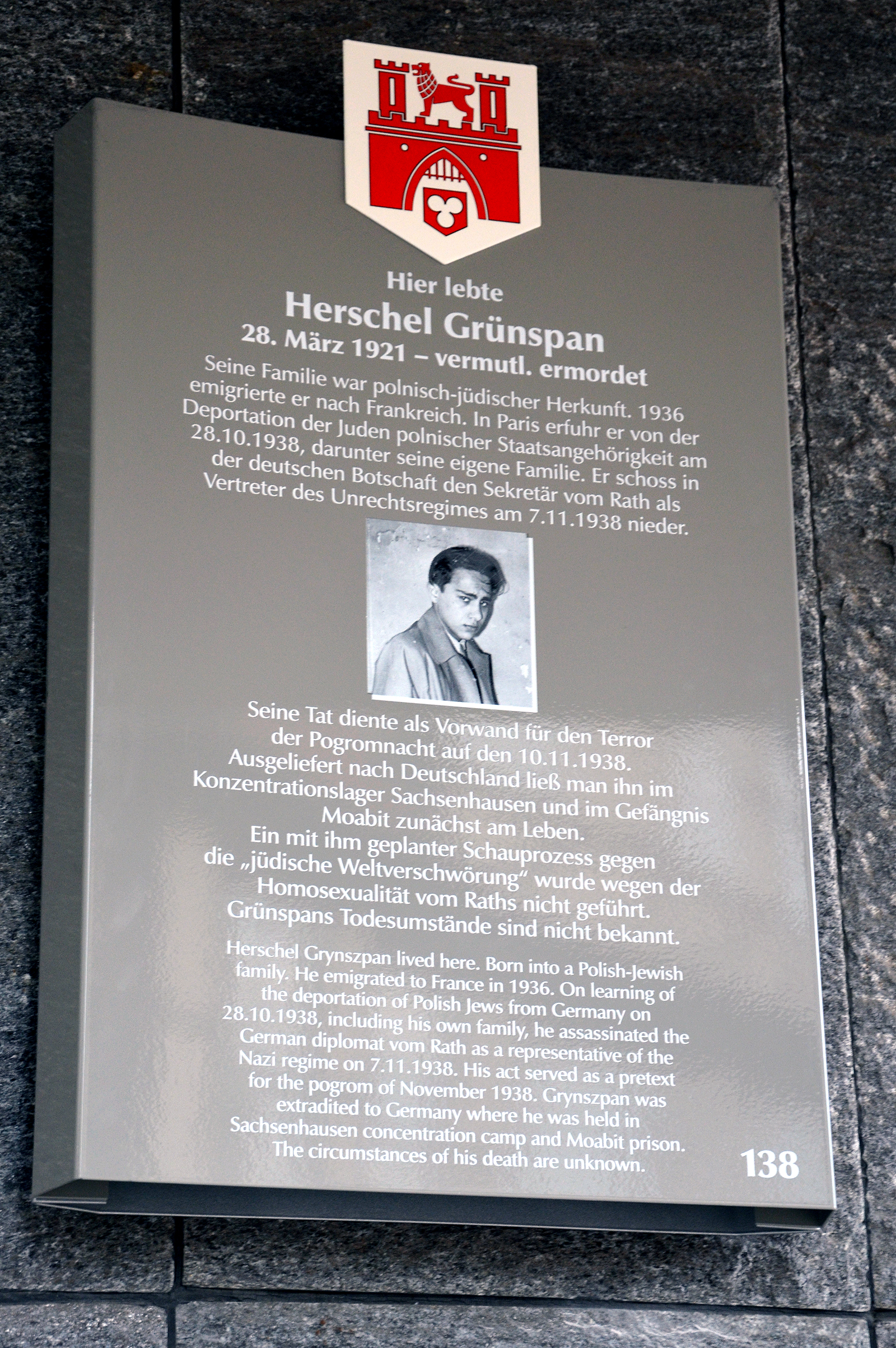 "Herschel Grynszpan lived here. Born into a Polish-Jewish family. He emigrated to France in 1936. On learning of the deportation of Polish-Jews from Germany on 28.10.1938, including his own family, he assassinated the German diplomat vom Rath as a representative of the Nazi regime on 7.11.1938. His act served as a pretext for the pogrom of November 1938. Grynszpan was extradicted to Germany where he was held in Sachsenhausen concentration camp and Moabit prison. The circumstances of his death are unknown."